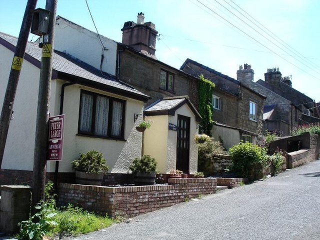 Gwespyr cottages. Stone cottages along the roadside that rises steeply up from the coast into Gwespyr.